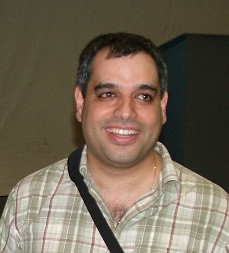 Hisham Zreiq in the first screening of his documentary film The Sons of Eilaboun in Nazareth (2007)